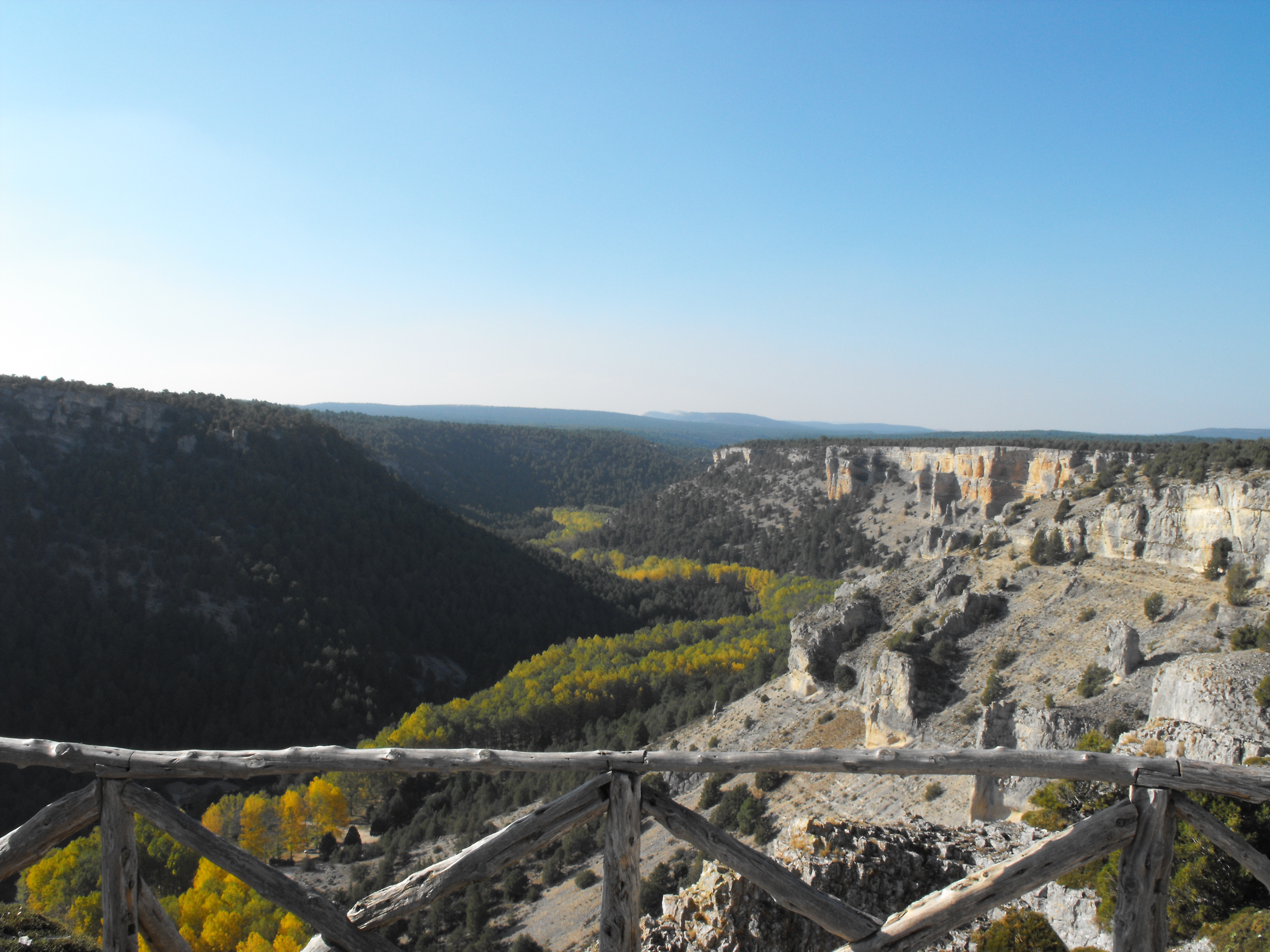 Viewpoint over the River Lobos Canyon - Soria - Spain